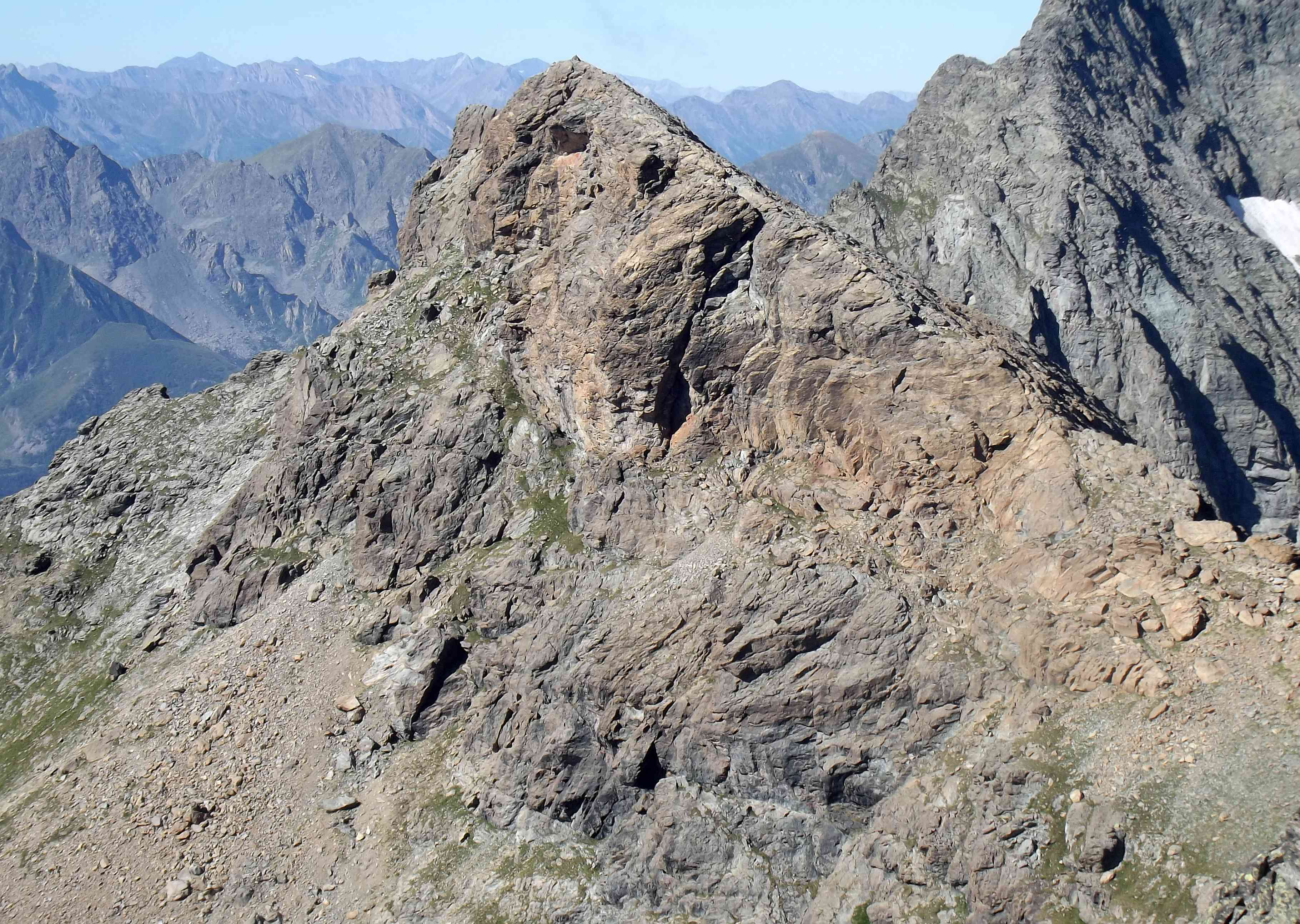 Punta Golai (Graian Alps, TO, Italy) seen from Cima Chiavesso